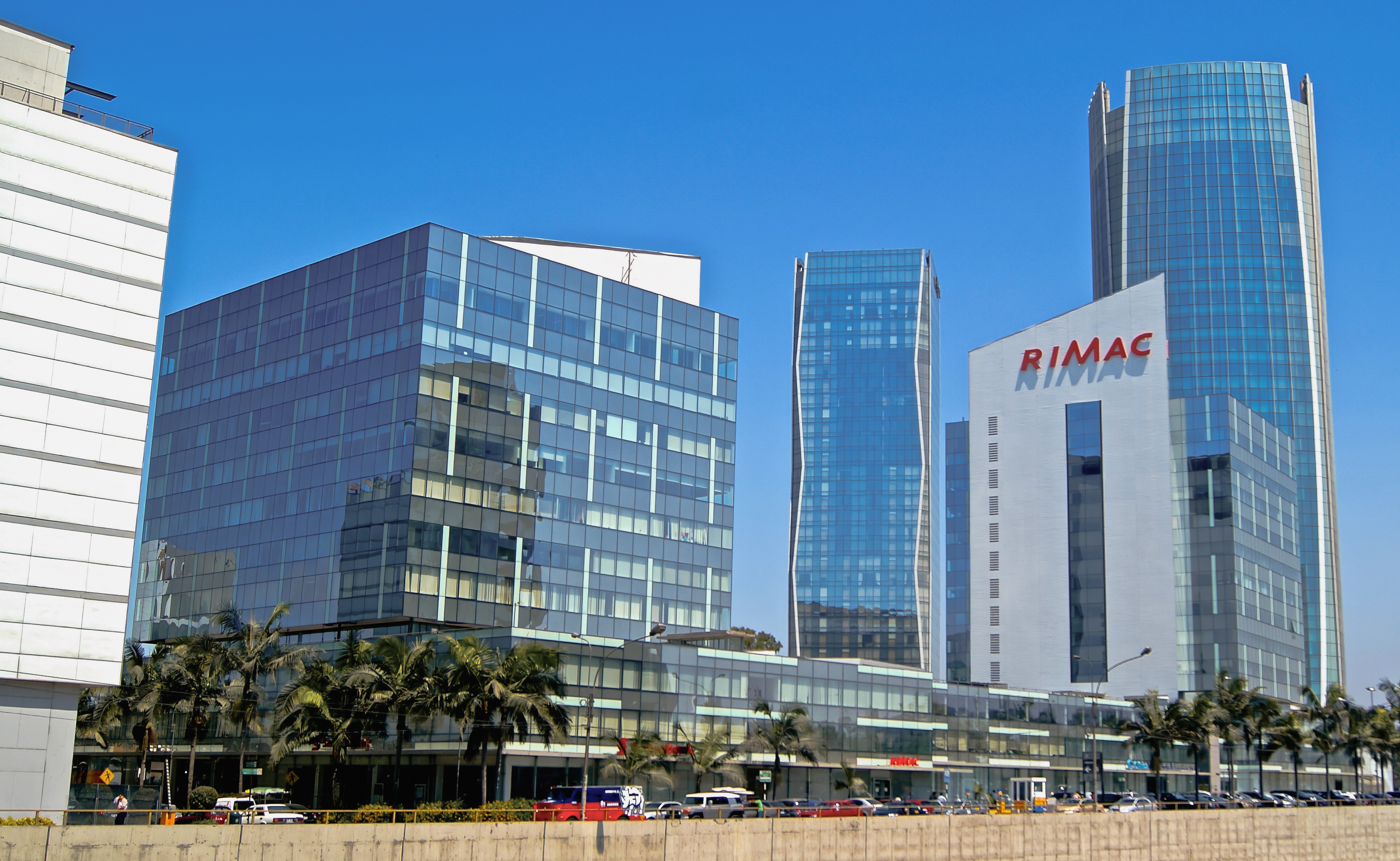 Lima, Peru (San Isidro District). December 2013.